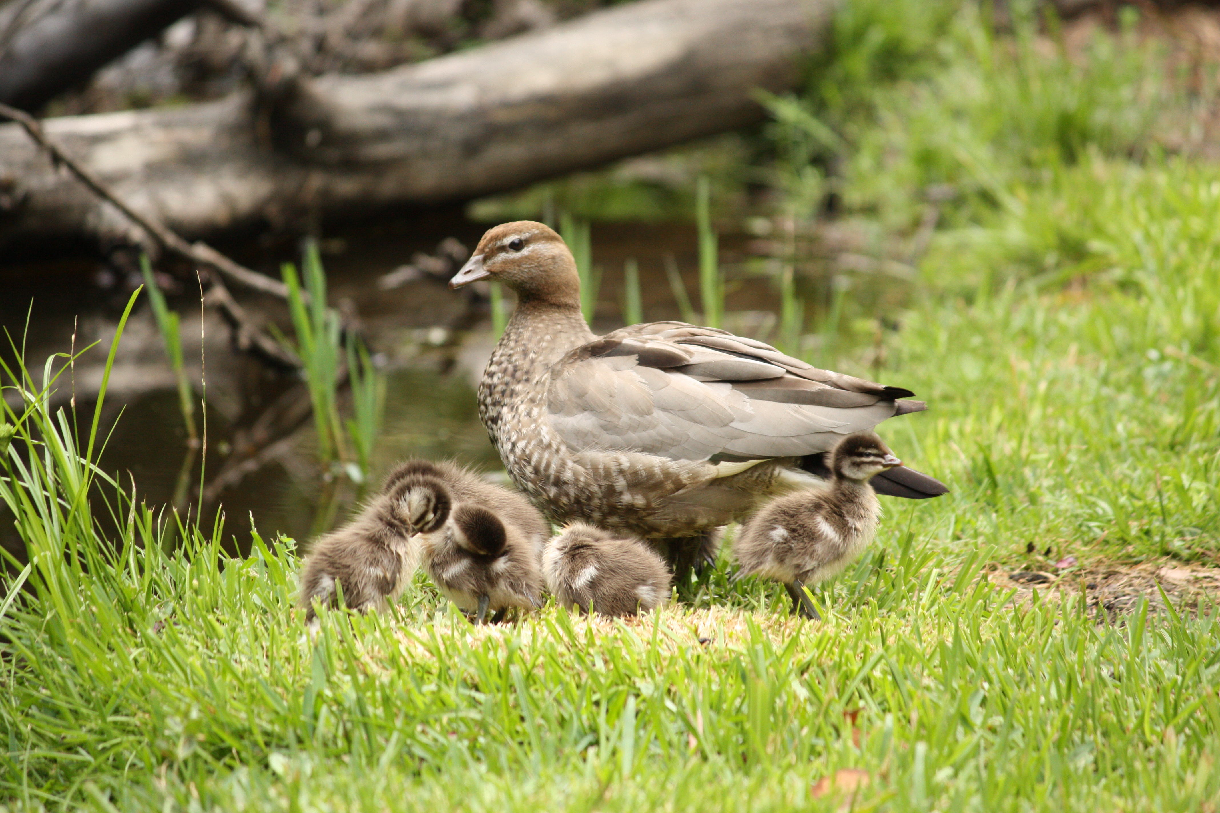 An Australian Wood Duck (also called Maned Duck) in Warburton, Australia.